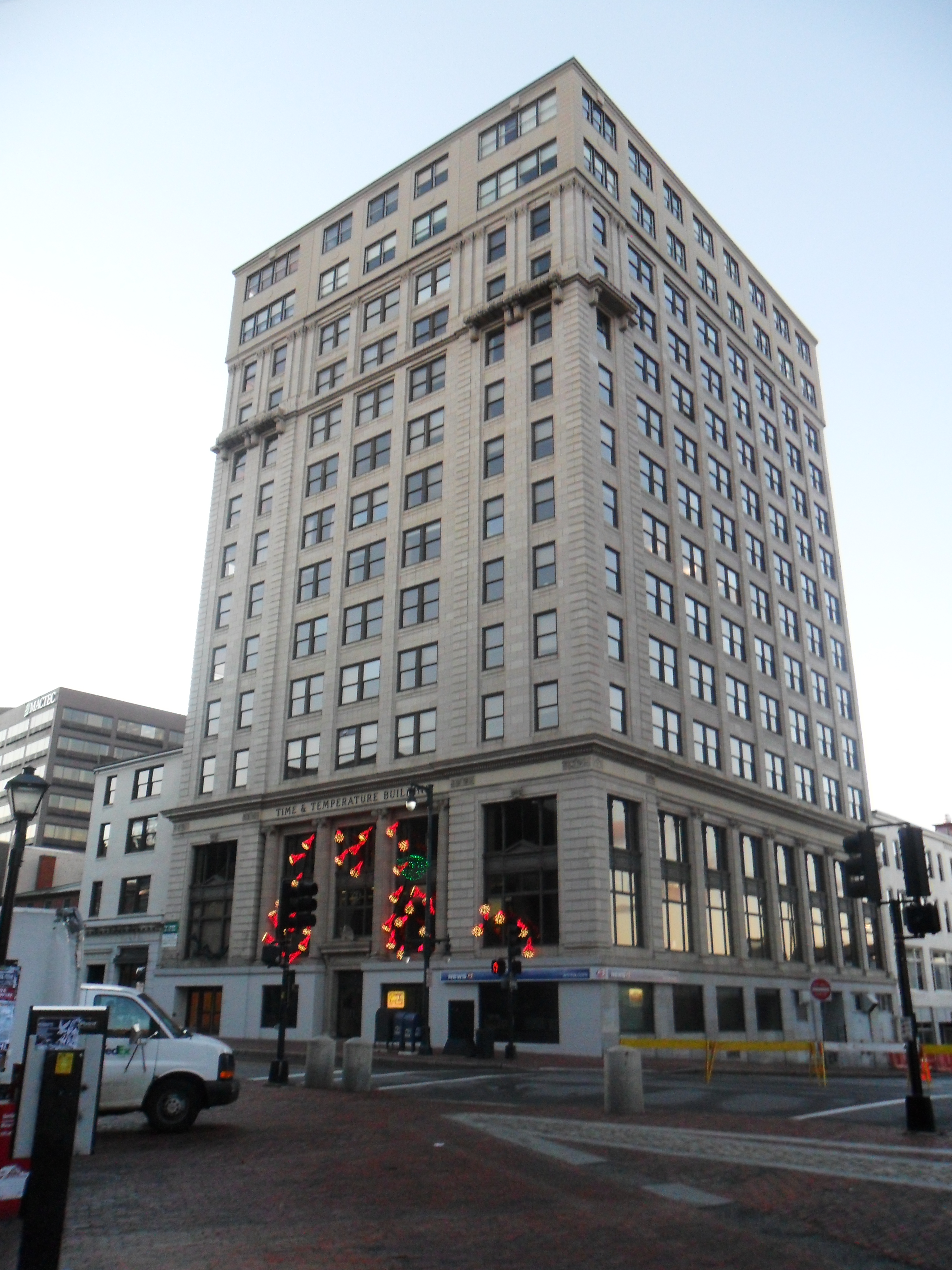 The Time and Temperature Building in downtown Portland, Maine